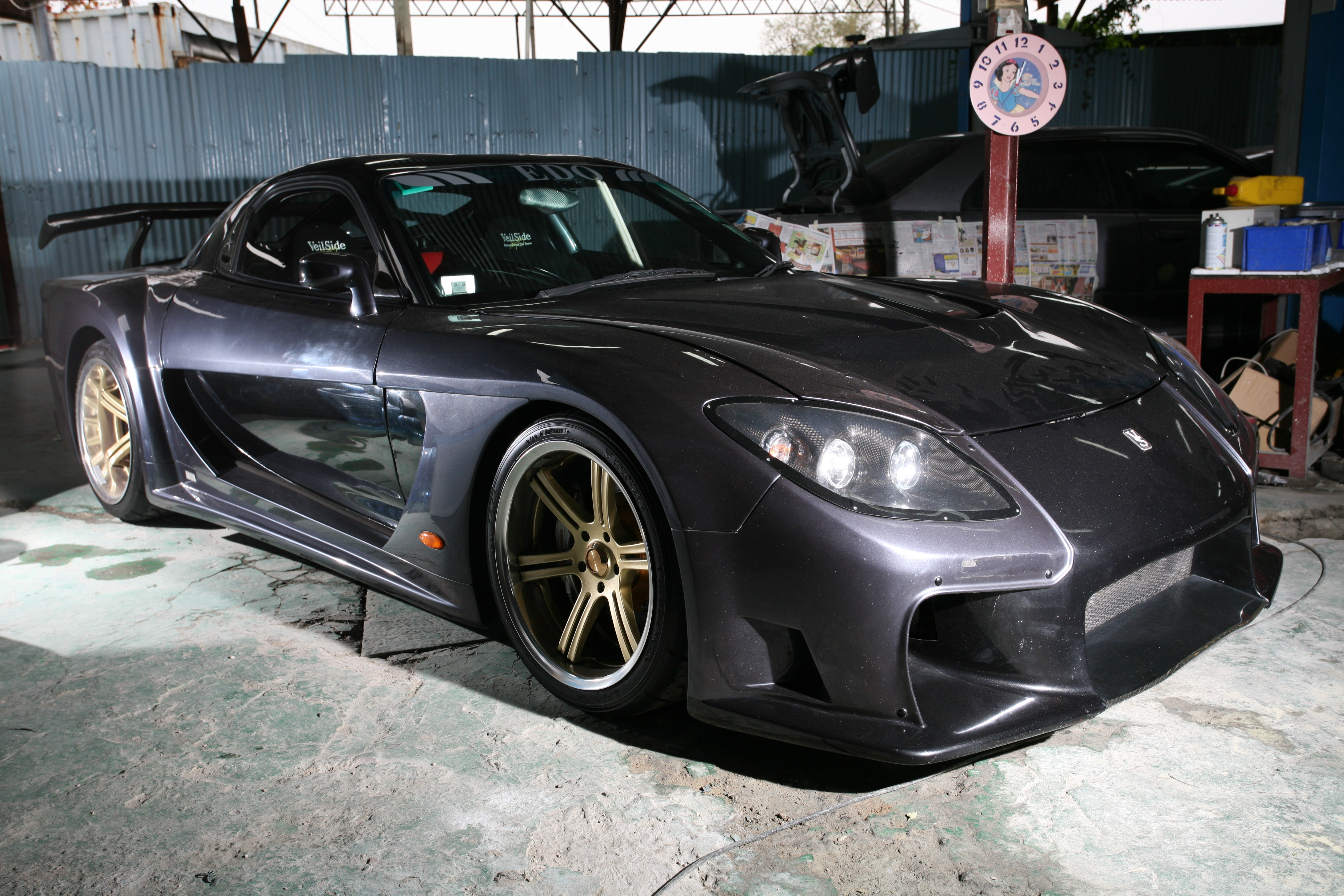 Veilside Fortune Mazda FD RX-7